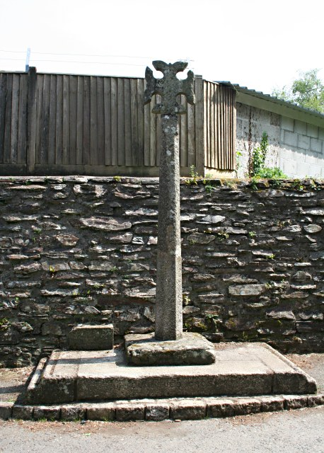 Dunheved Cross This old stone cross is at what used to be the end of Dunheved Road and, I believe, something of a local landmark but its site is now an out of the way back lane as Dunheved Road has been truncated by the huge cutting of the A30 dual carriageway.